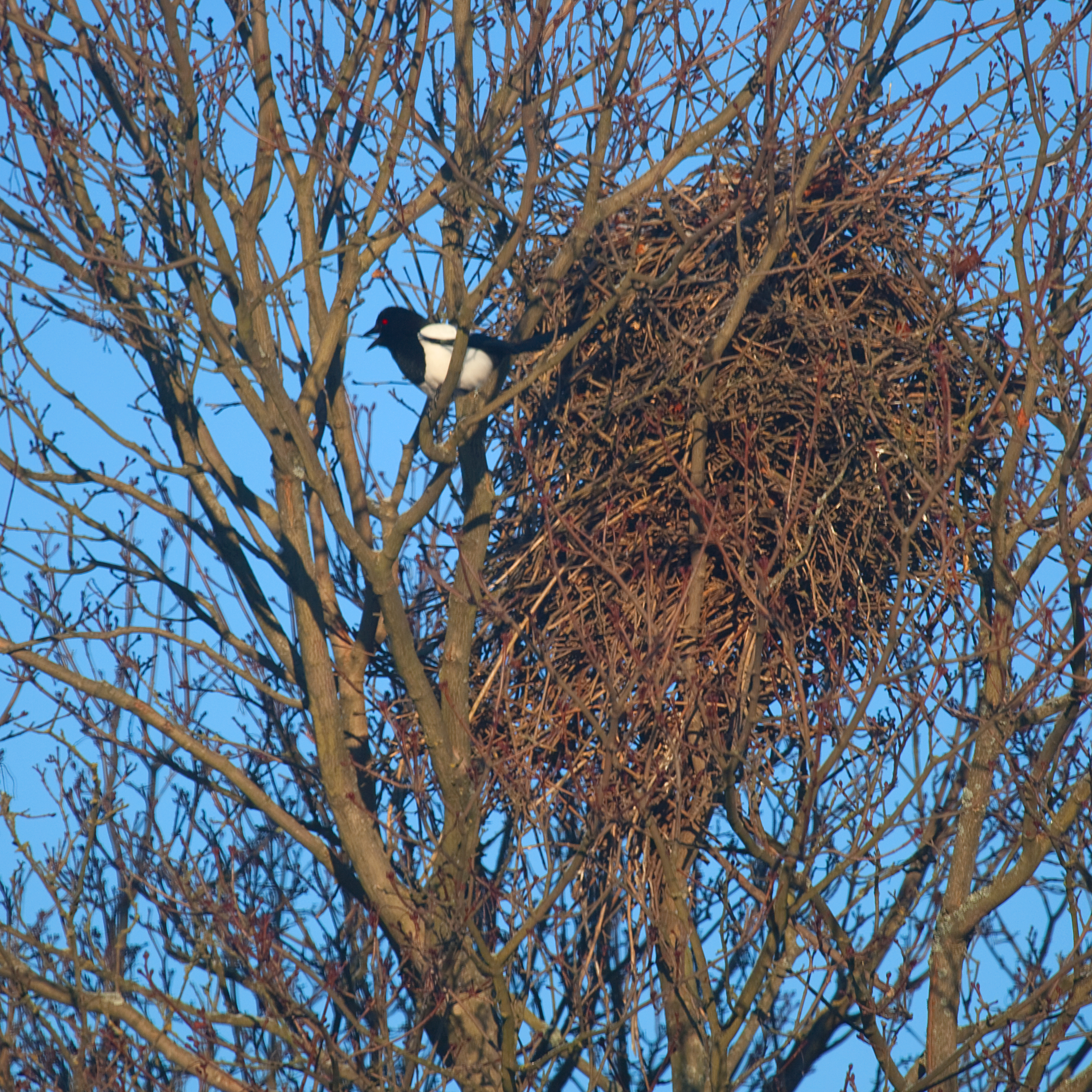 European magpie in a tree; Vaxholm, near Stockholm, Sweden.